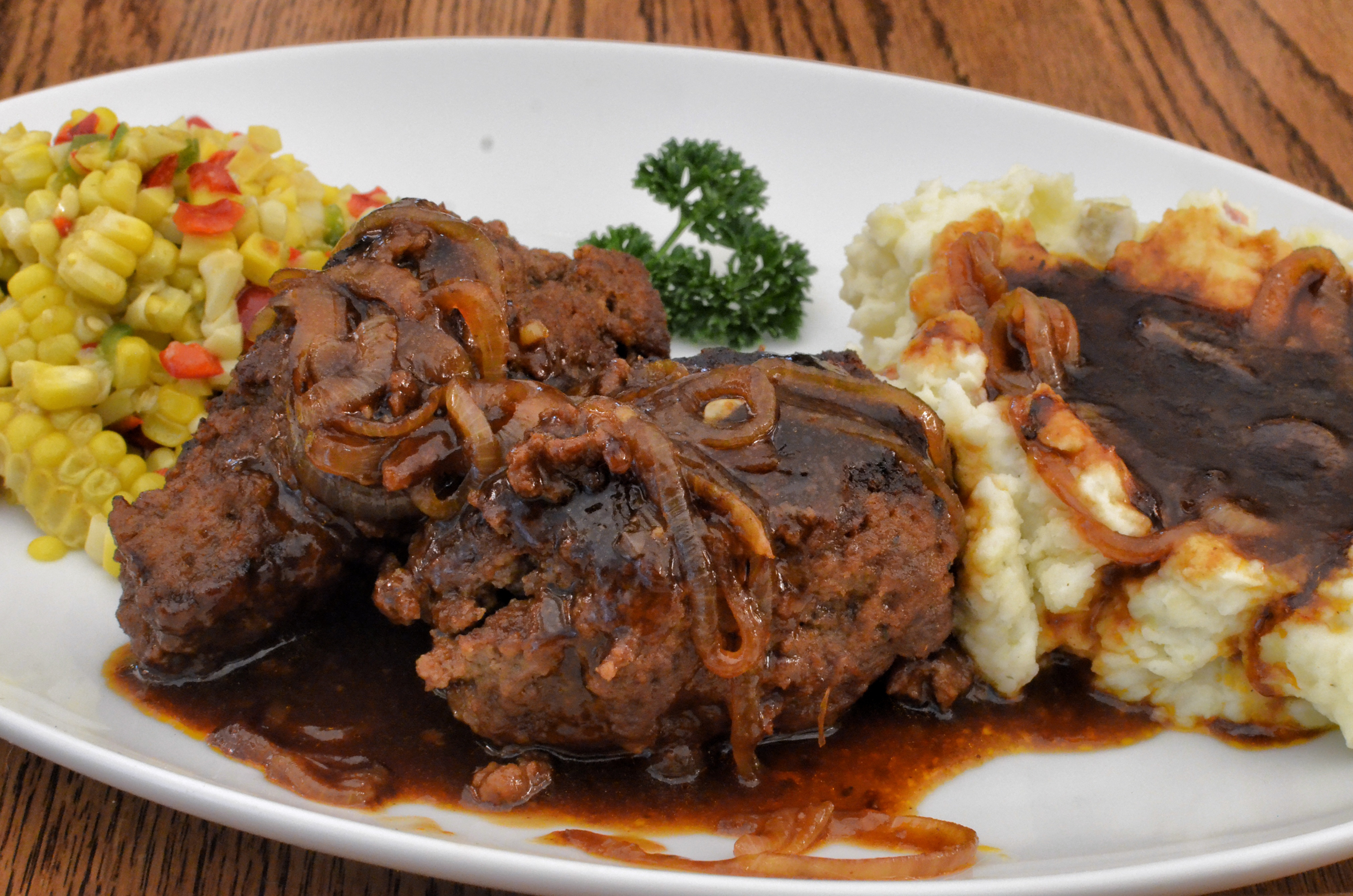 Two salisbury steaks with brown sauce